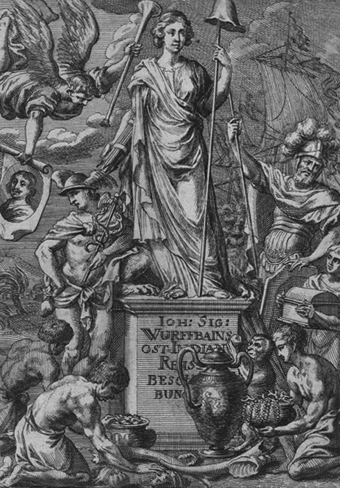 Allegorical frontispiece of Johann Sigmund Wurffbain's travel journal, printed after his death in 1686. The angel on the left-hand side holds a portrait of the author.